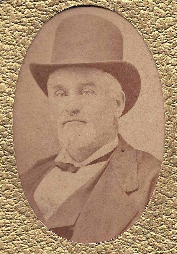 SACorker after WBTS